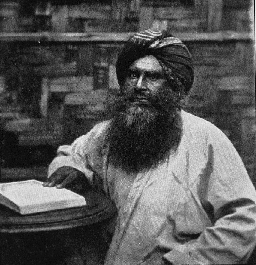 Maulvi Allauddin his name was Syed Allauddin Hyder, was the first prisioner of Cellular Jail (Kaala paani). This image is more than 150 Years old.